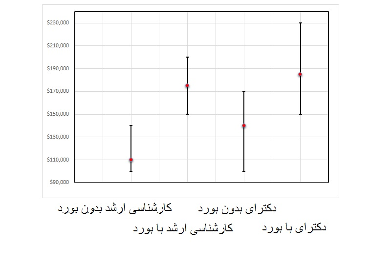 Medical physicist salaries in 2015 in the US according to AAPM statistics. The red dot is the median, and the error bars are the 80th and 20th percentiles.